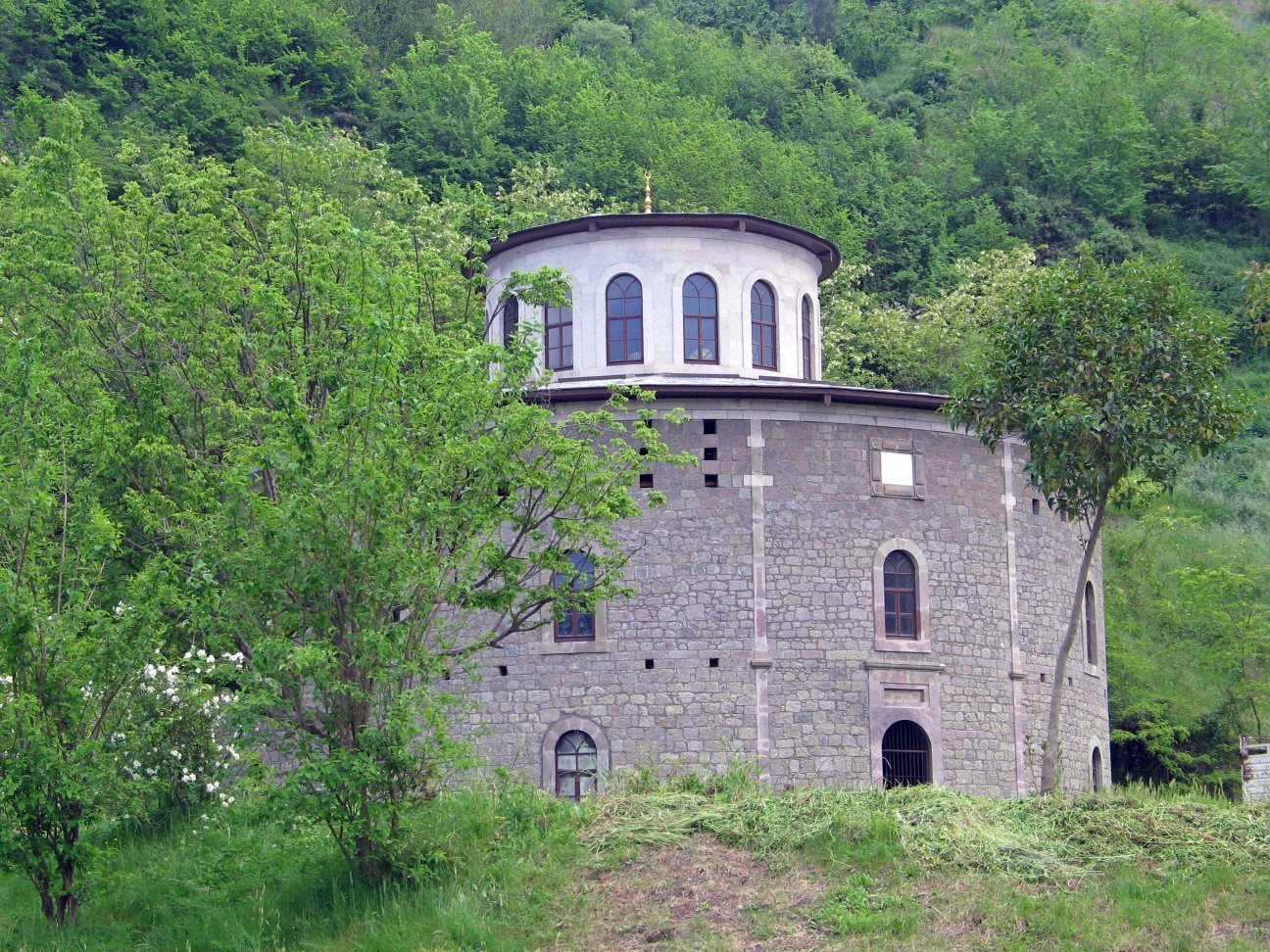 The Arsenal This is perhaps the most striking and controversial of all Trabzon's buildings. It has been dated H.1305 and the monogram of Abdülhamit II and inscription corroborate this assumption. Thus, its construction date can be definitely confirmed as 1887.